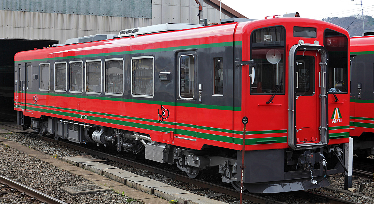 Aizu Railway Type AT-700 DMU